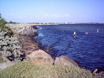 Digital Photo of P A Burns reserve & Altona Coastal Park shoreline, Altona (Melbourne suburb), Victoria, Australia Photographer: Brendan Kosowski (myself)